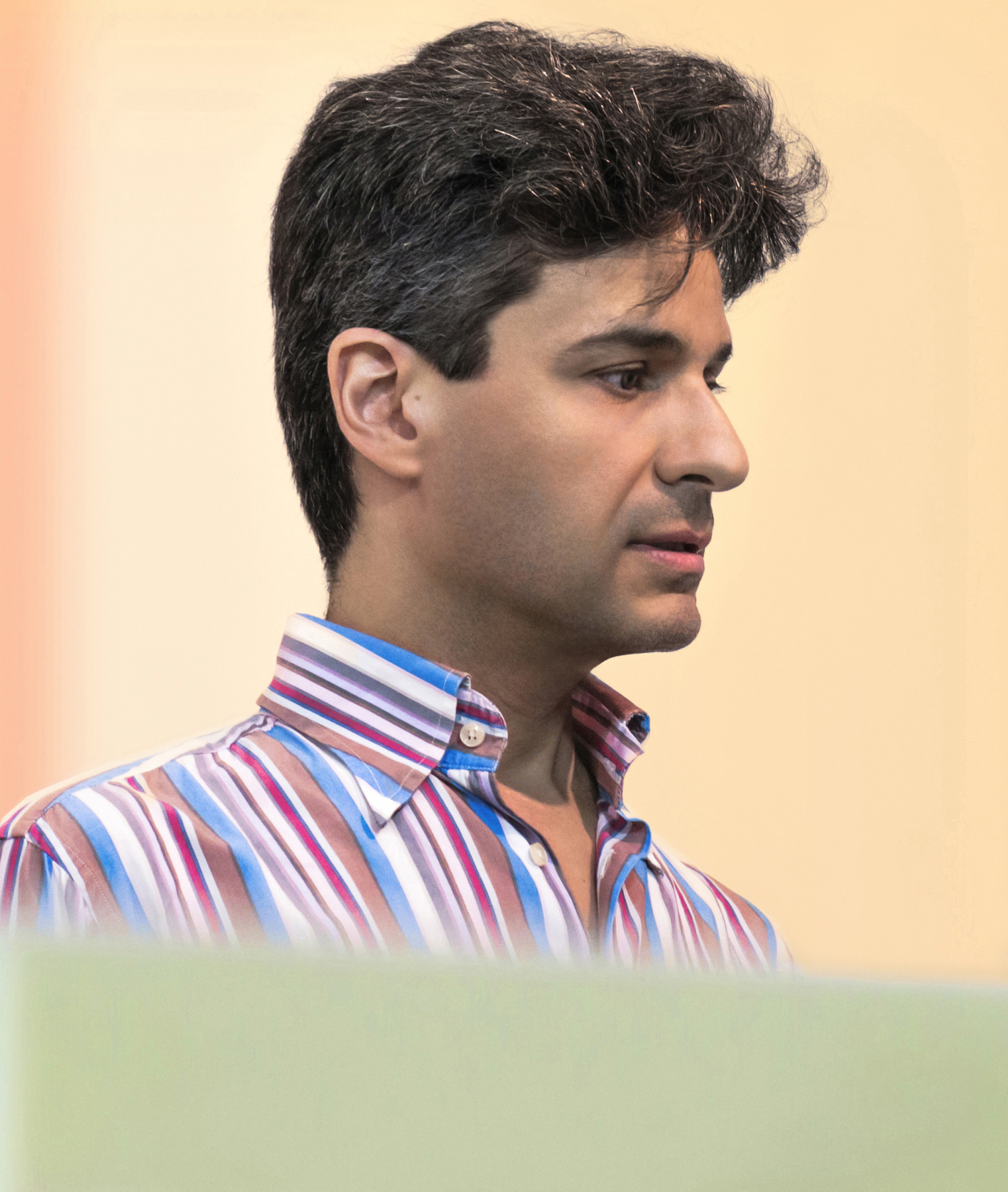 Photographic portrait of Italian contemporary artist Enrico Corte in 2015.